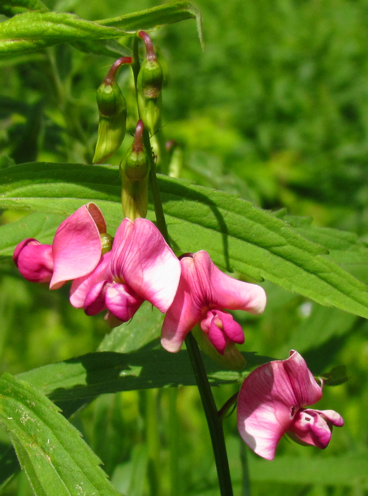 Tuberous Vetchling (Lathyrus tuberosus), Ottawa, Ontario, Canada